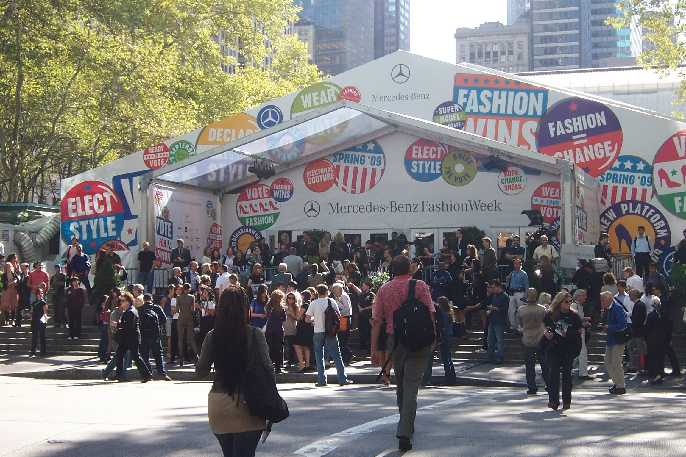 Front (Sixth Avenue) entrance of Spring 2009 New York Fashion Week at Bryant Park